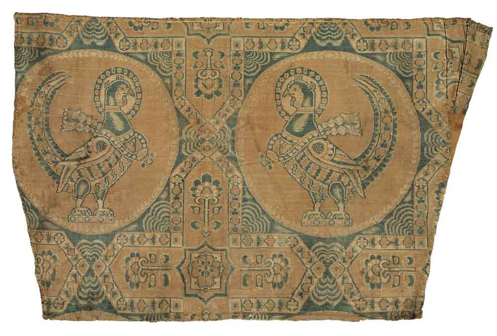 Pheasants in roundels. Silk samite fragment, Central Asia, 7th-8th century. Carlo Cristi